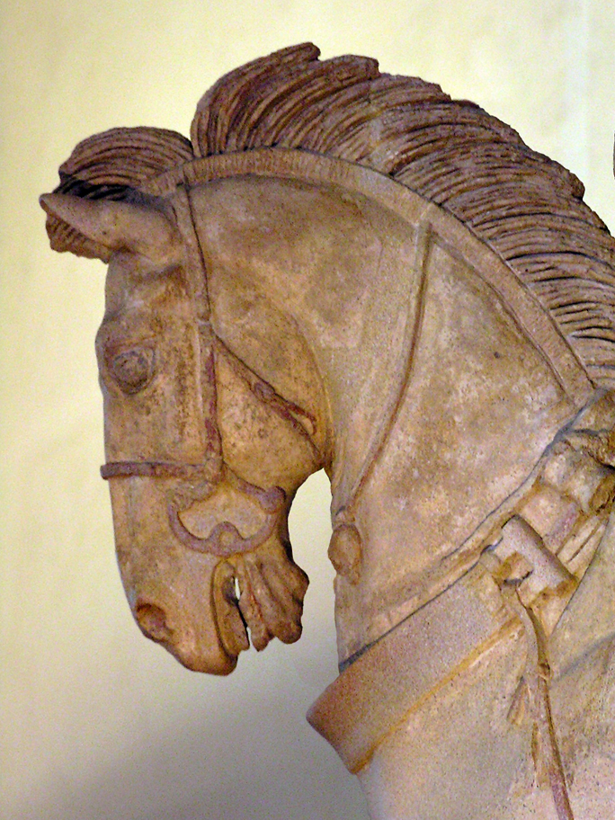 Decoration from the pedimental area of the temple of the Ara della Regina. Head of one of the Etruscan winged Horses